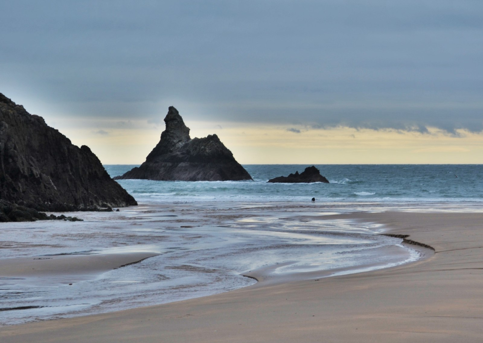 Church Rock just off the beach at Broad Haven South near Bosherston, Pembrokeshire, Wales.